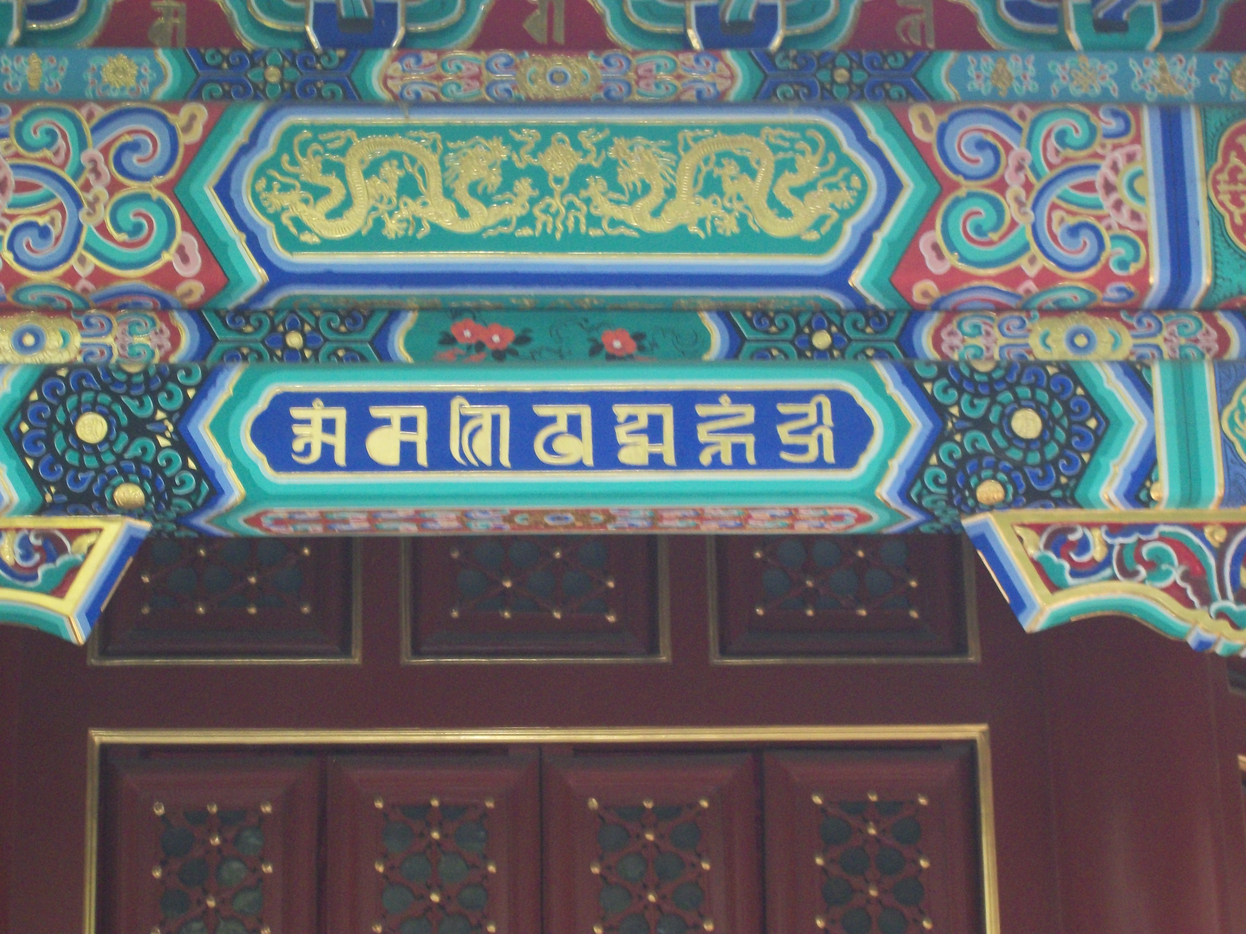 Writing in Sanskrit at the Yonghe Temple in Beijing, which is pronunced as "om mani padme hum hrīh"